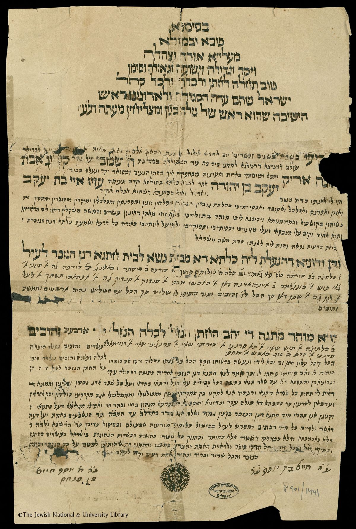 Ketubah from The Ketubbot Collection of the National Library of Israel